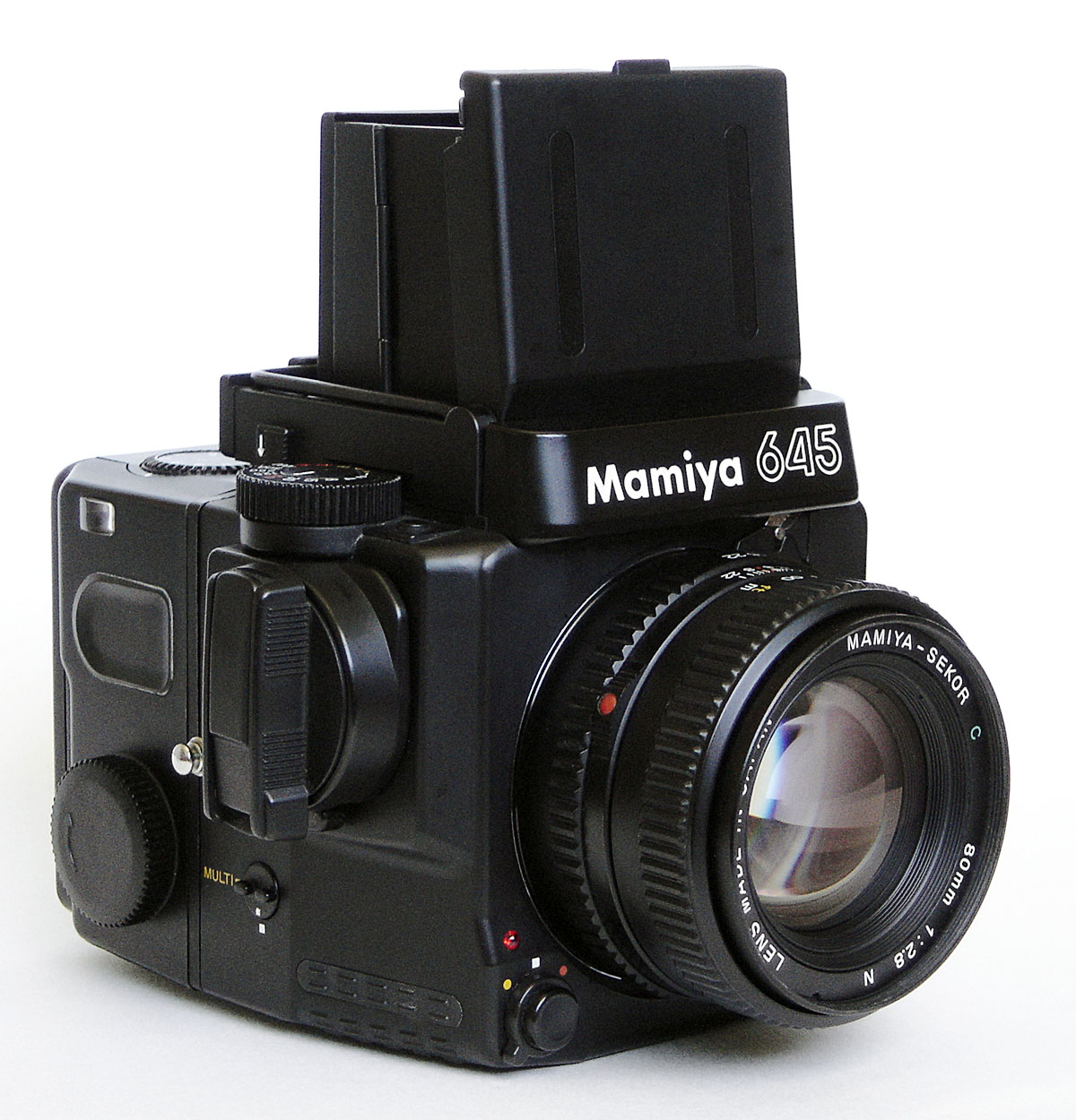 SLR medium format camera Mamiya 645 Super in a basic configuration. Marketing date : December 1985 until 1993.